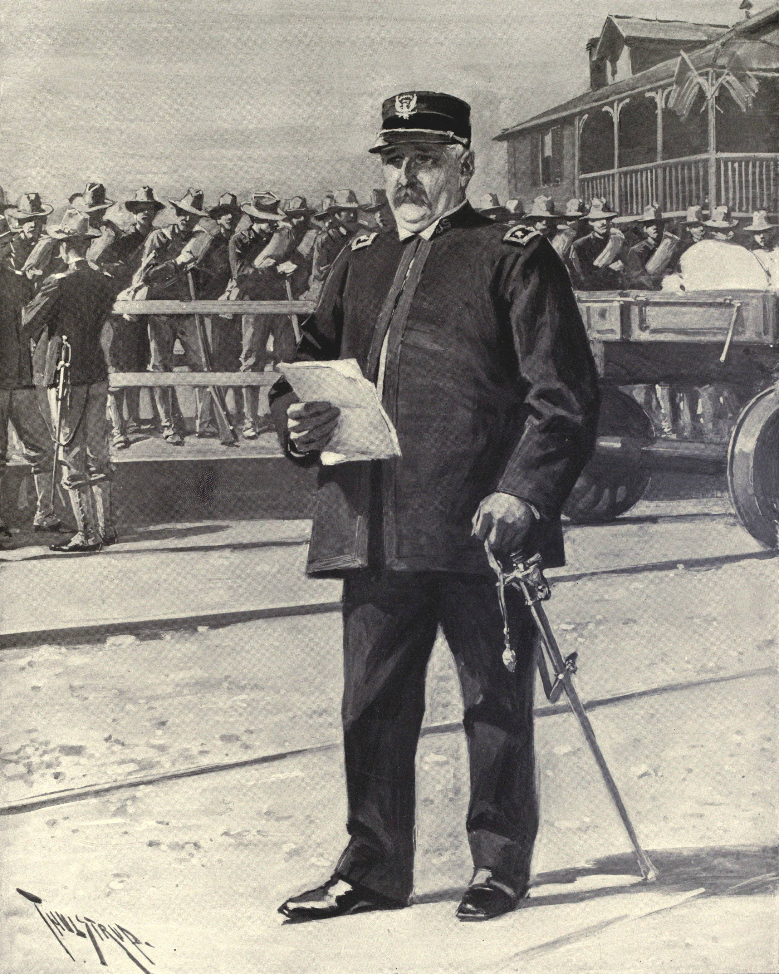 From p. 313 of Harper's Pictorial History of the War with Spain, Vol. II, published by Harper and Brothers in 1899.